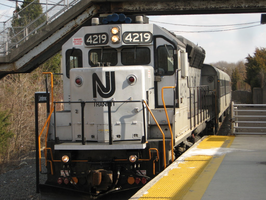 New Jersey Transit #4219 pulls Train #4616 into Lindenwold station in March 2008